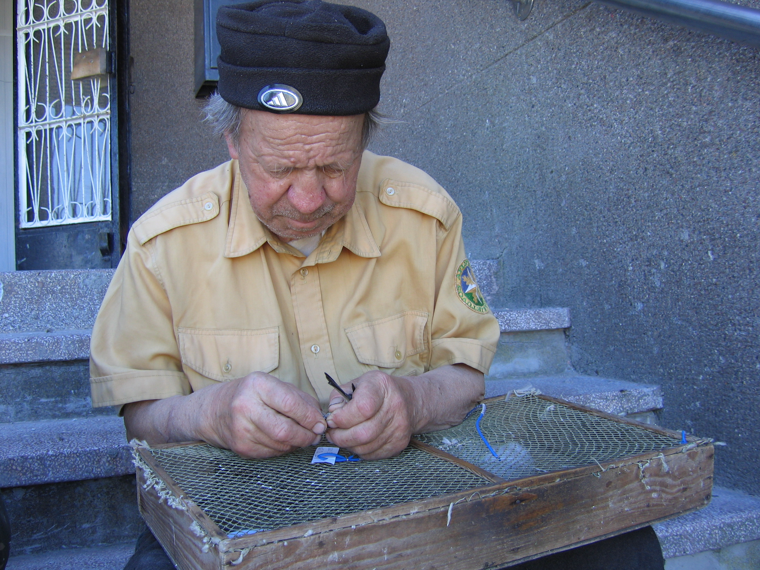 Ventės rago Ornitologinės stoties vedėjas Leonas Jezerskas žieduoja paukščius.